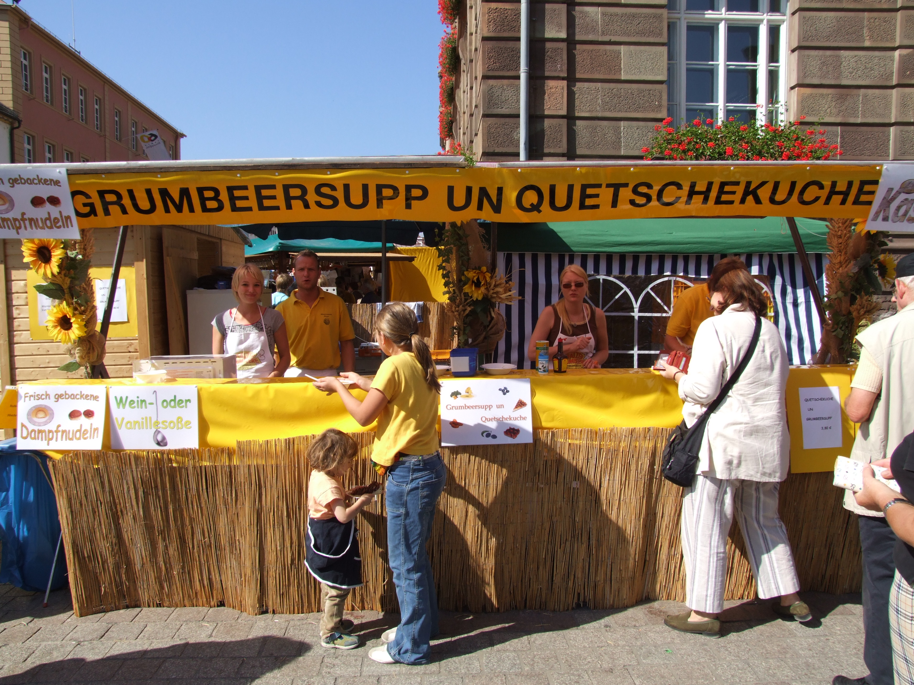 Foodstand at farmer's market in Speyer serving "Potato soup and plum cake" and "steamdumplings with wine or vanilla sauce".